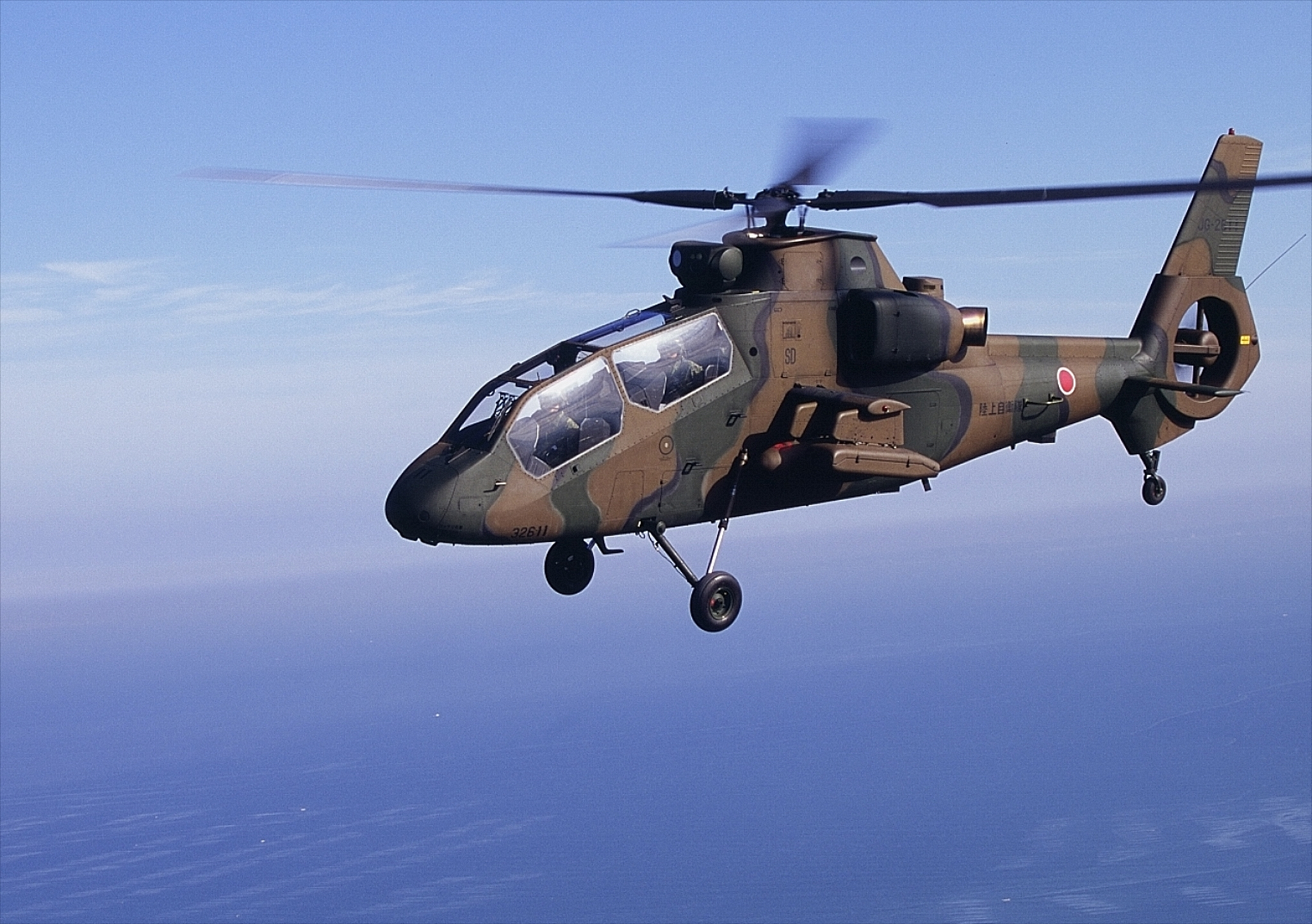 Title 観測ヘリコプターＯＨ－１_R.jpg Album 装備 ＯＨ－１